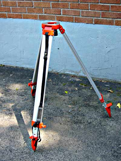 This is a photo of a surveyor's tripod, showing the head where the instrument attaches, the spiked feet that anchor into the ground and a carrying strap on one leg.